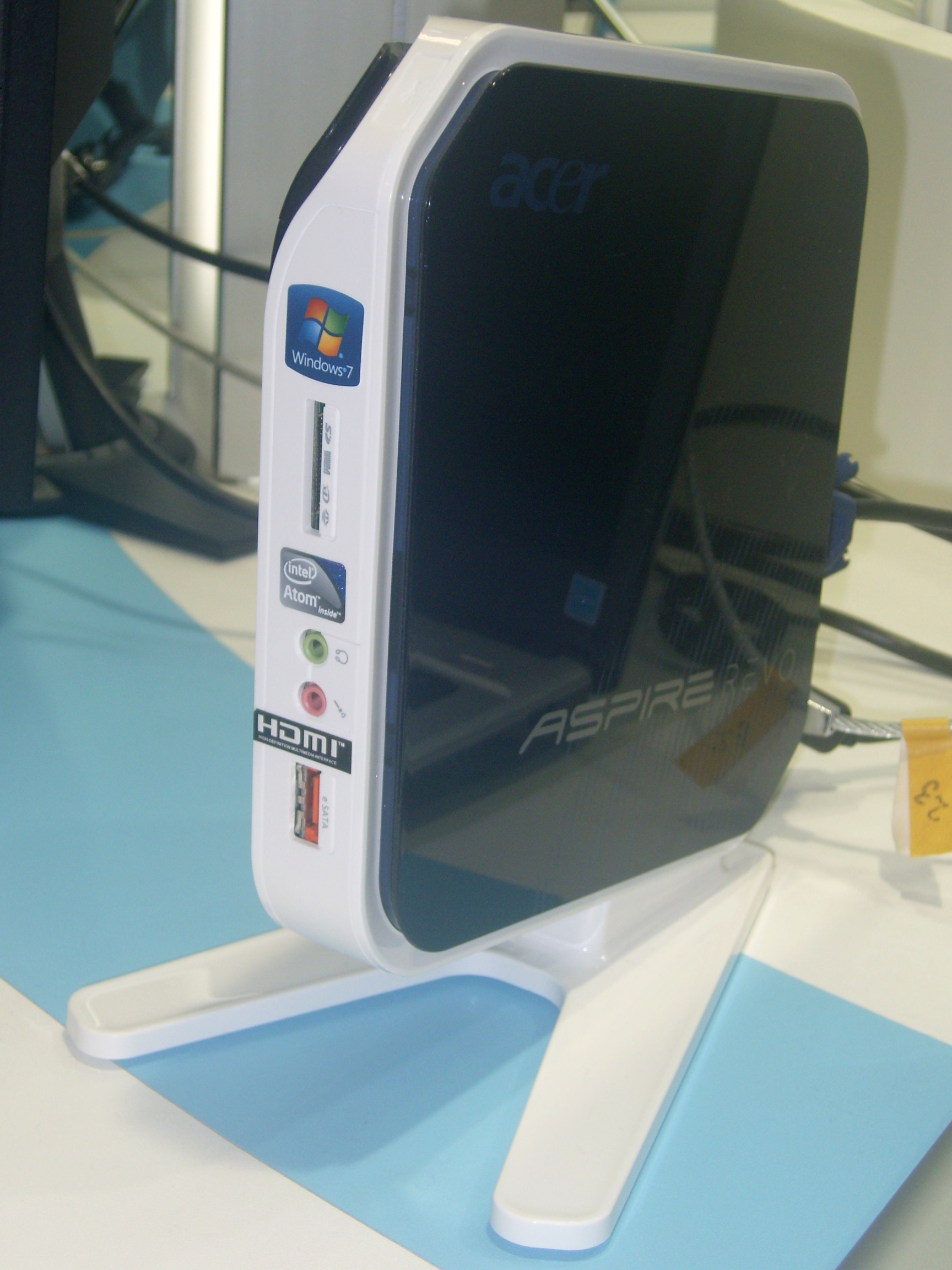 2009 Taipei IT Month: Acer Aspire Revo Nettop.